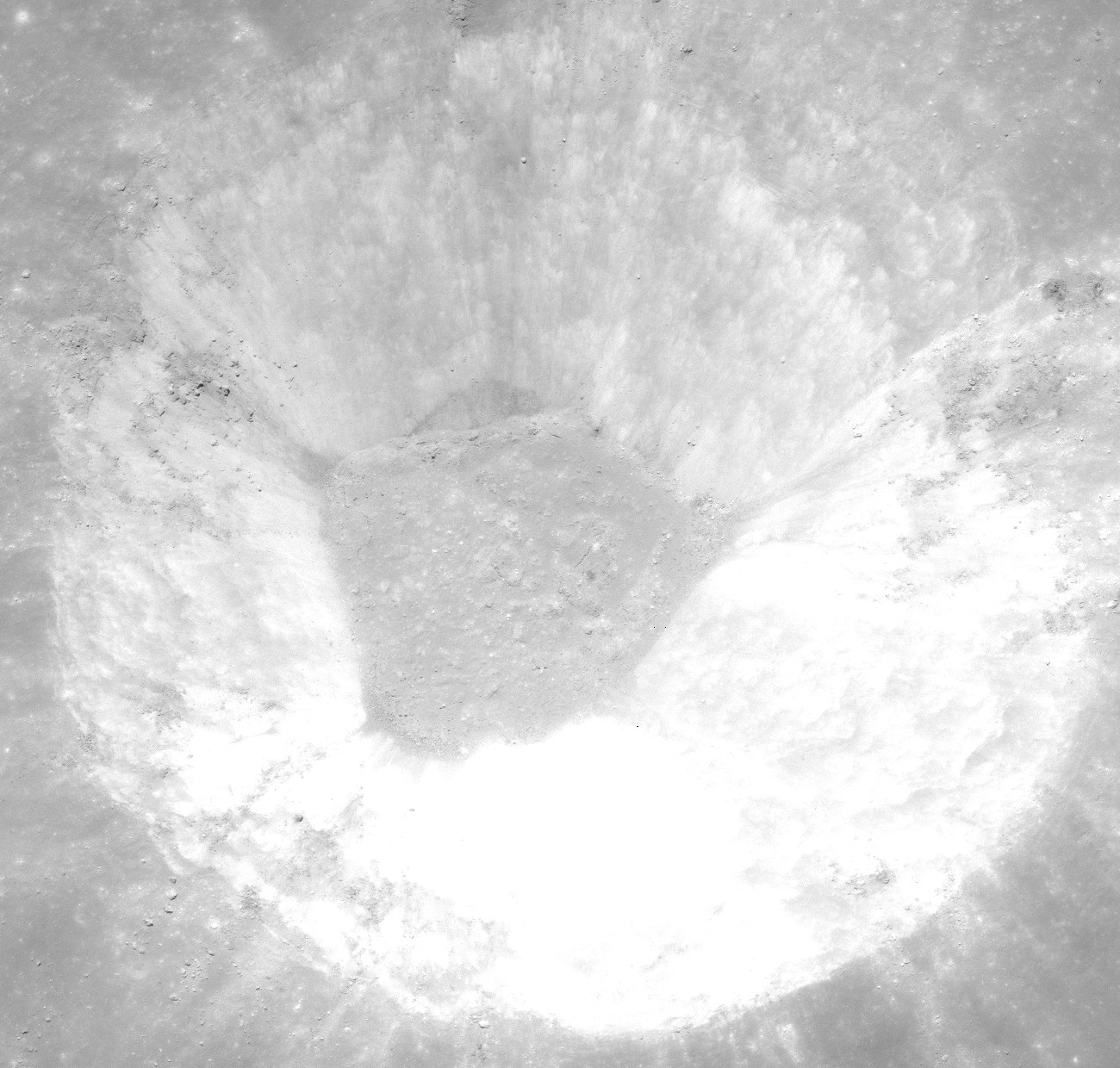 Slightly oblique view of Petit crater, on the moon. Note lack of visible craters on the floor of the crater, which is a sheet of impact melt. Taken by Apollo 17 panoramic camera.